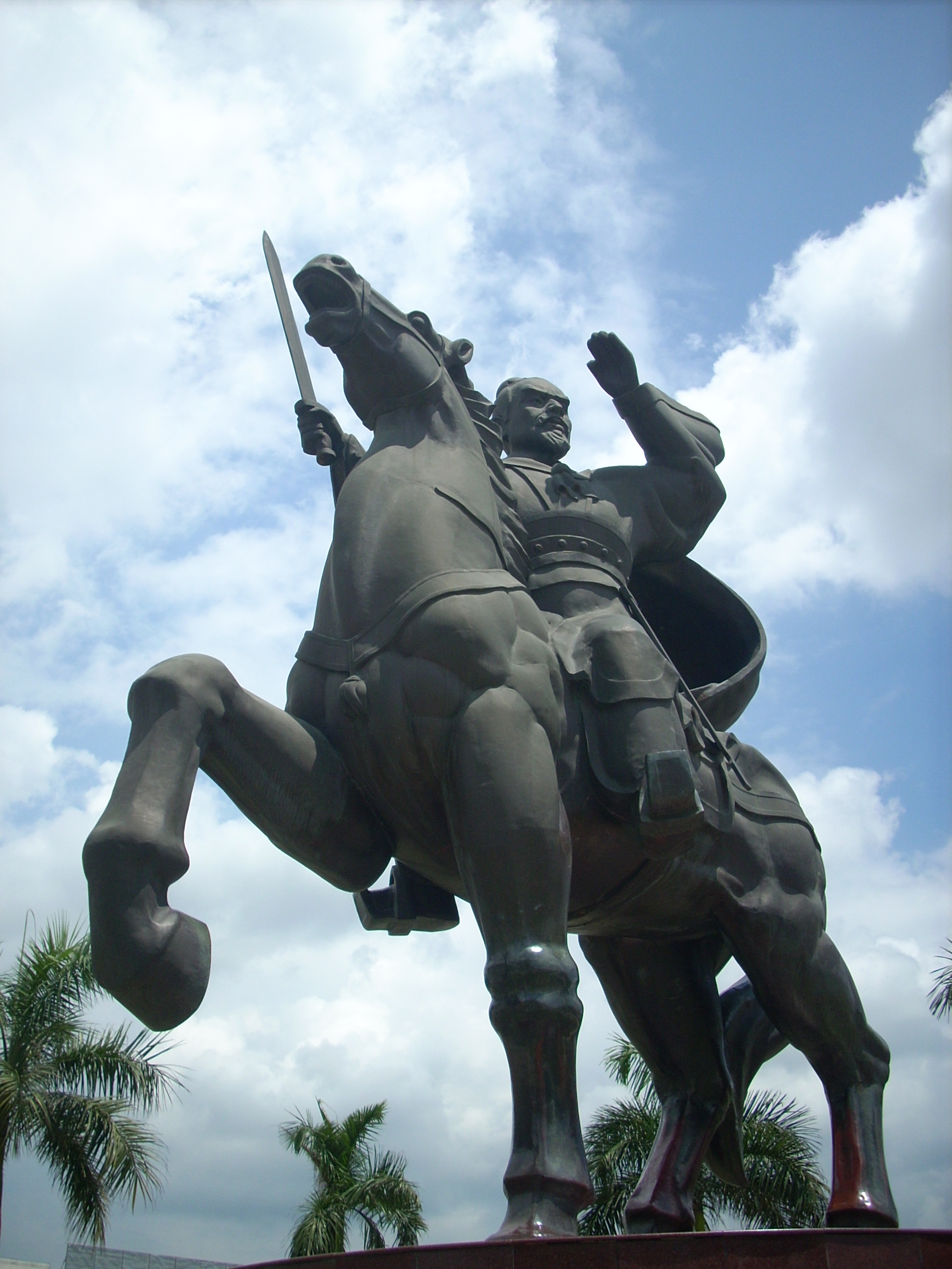 The statue of Zhao Tuo (Triệu Đà) located front the Heyuan Railway Station (Guangdong, China).